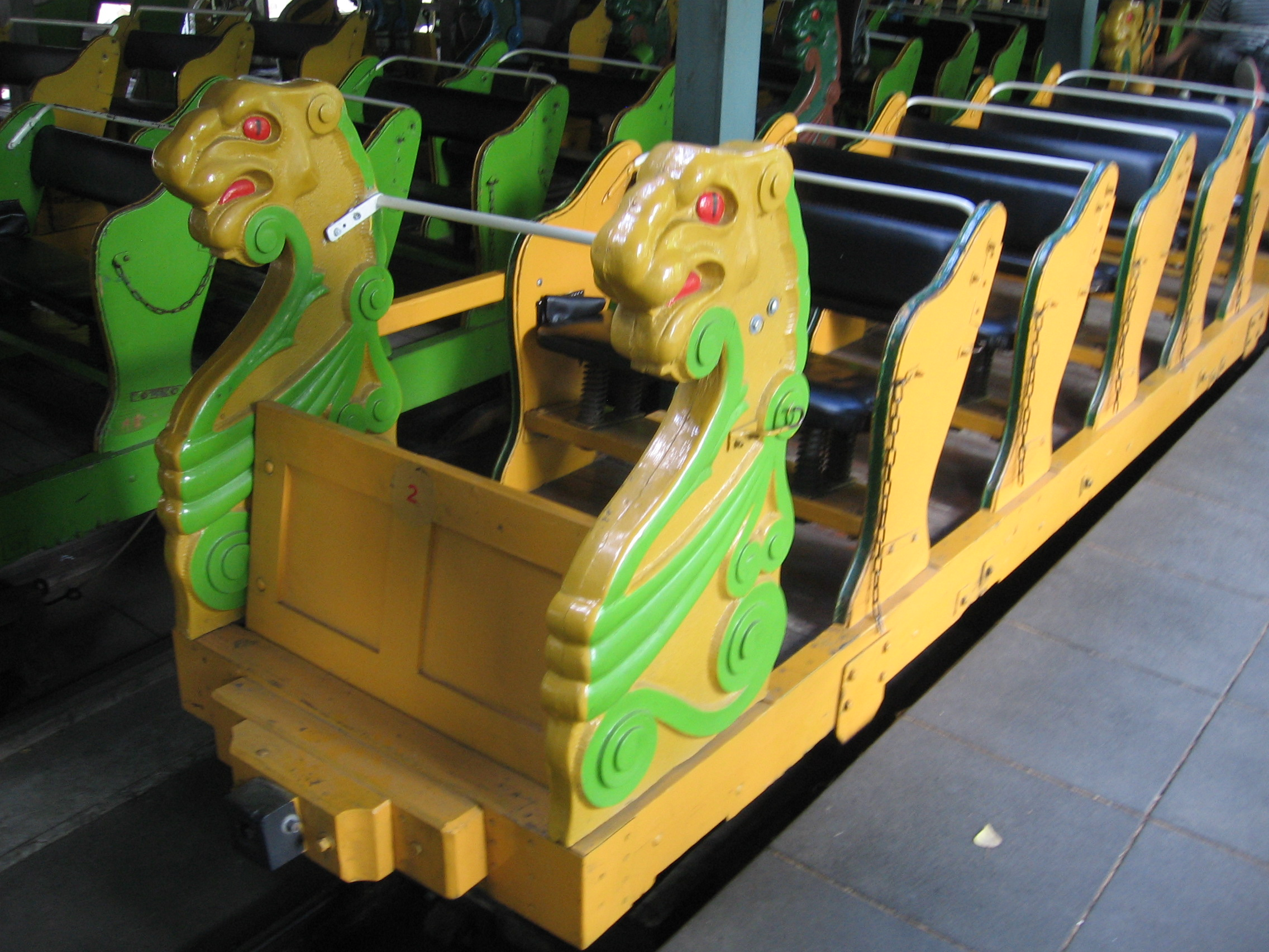 Wooden roller coaster in Budapest